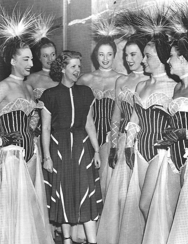 Margaret Kelly Leibovici with Bluebell Girls, year 1948